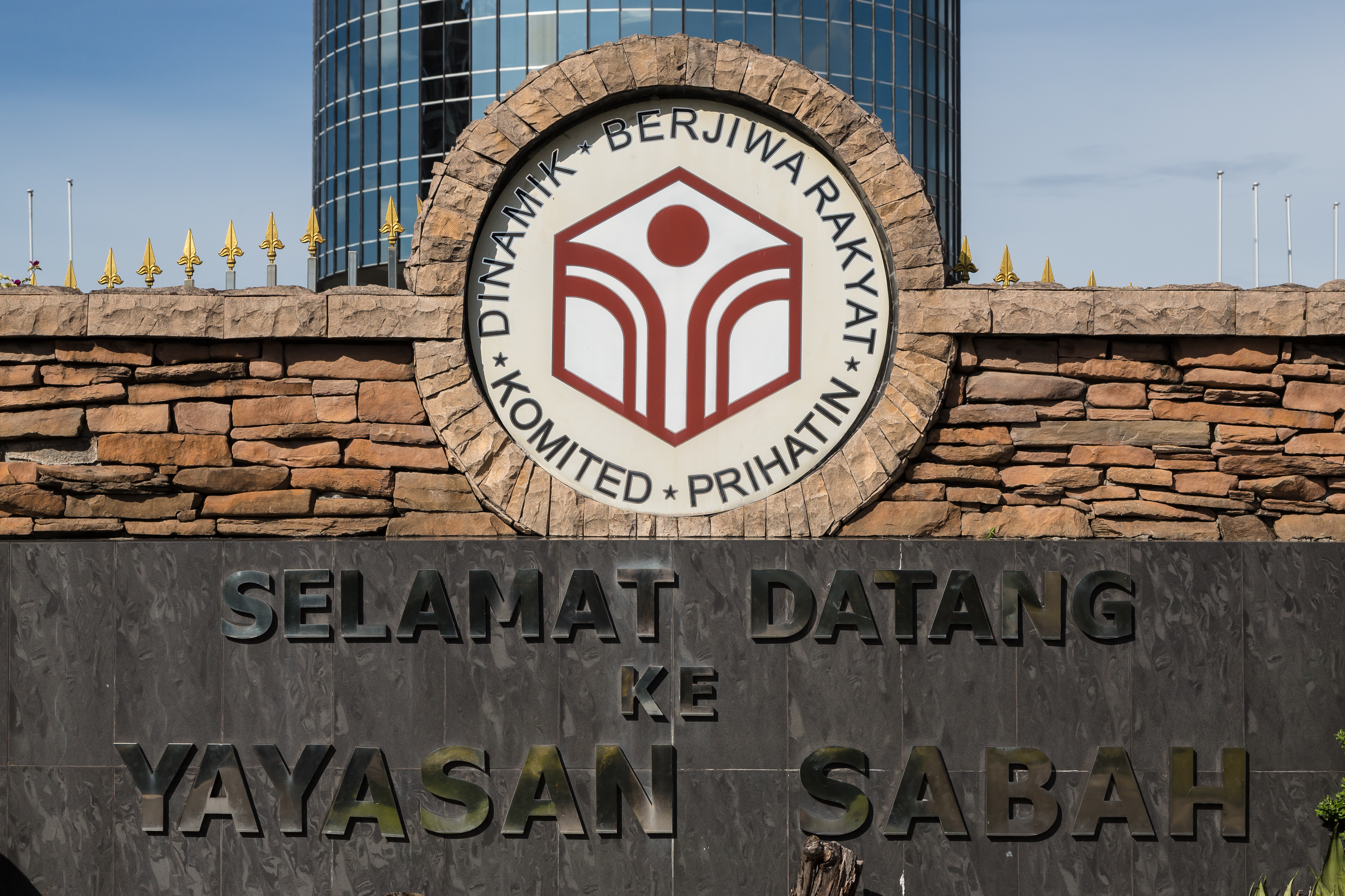 Kota Kinabalu, Sabah: Tun Mustapha Tower (Menara Tun Mustapha)